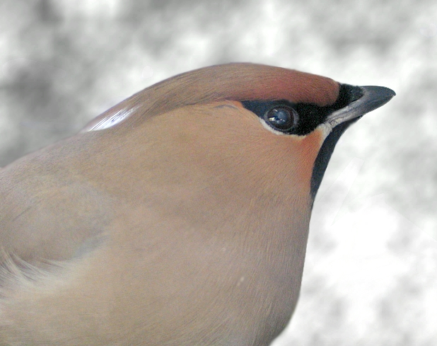 Bombycilla garrulus; author: M. Betley (Wikipedysta:Dixi)